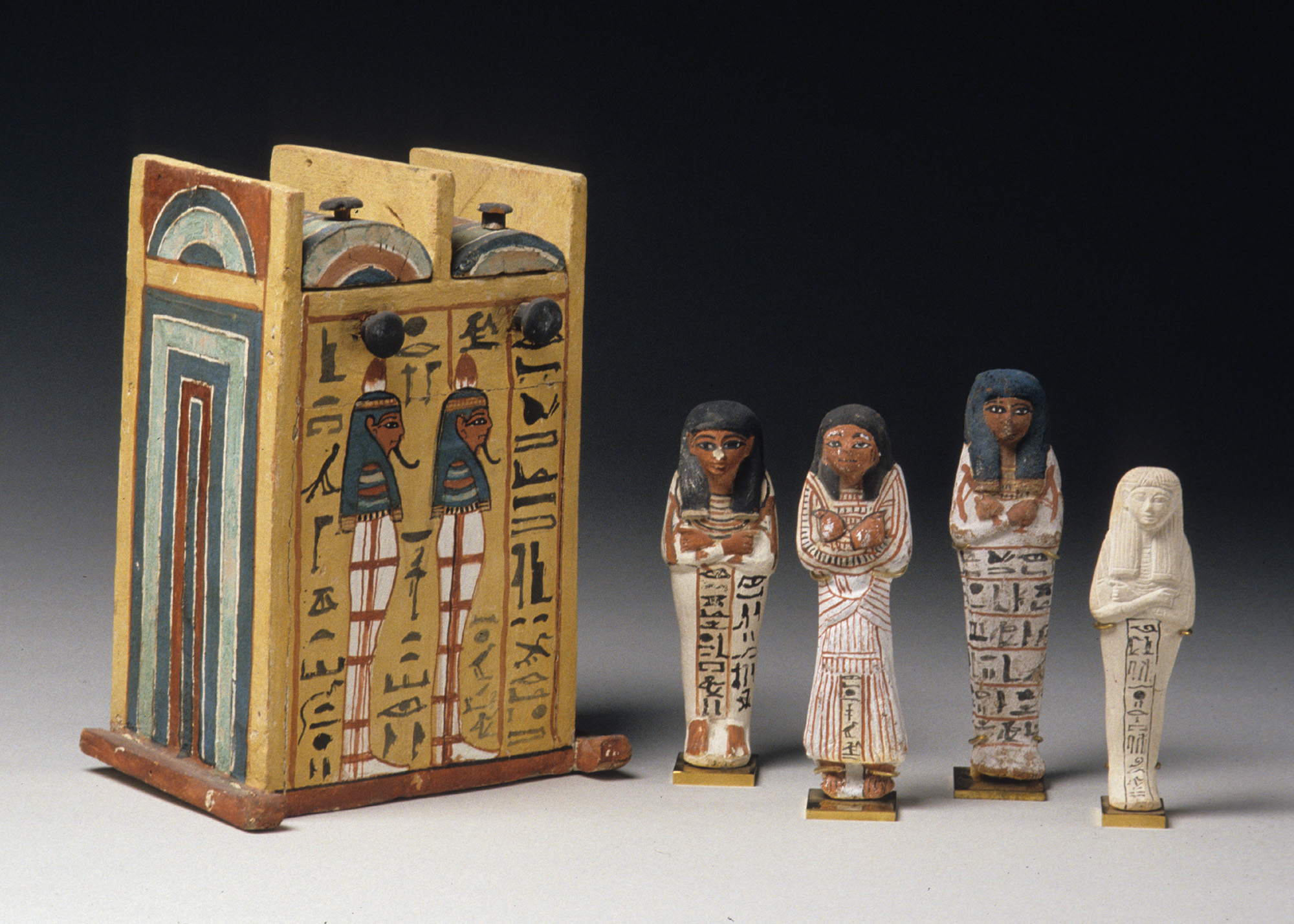 Shabti box, Paramnekhu